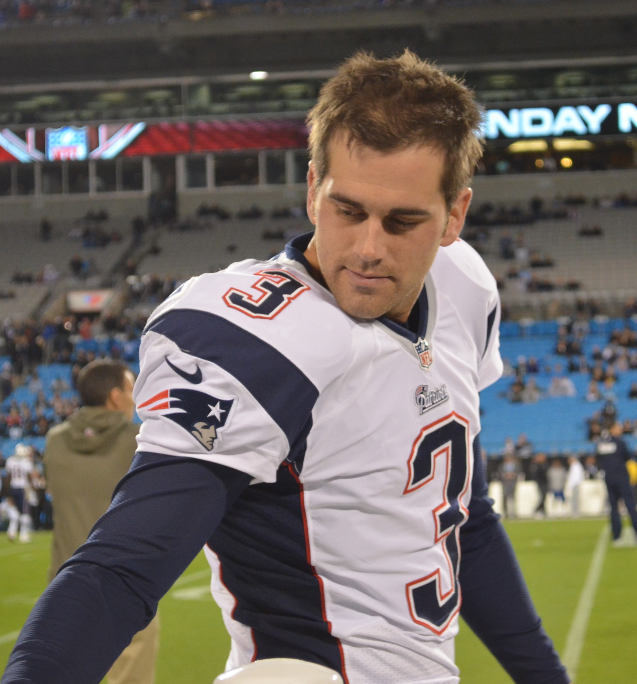 New England Patriots placekicker, Stephen Gostkowski, in a game against the Carolina Panthers on November 18, 2013.